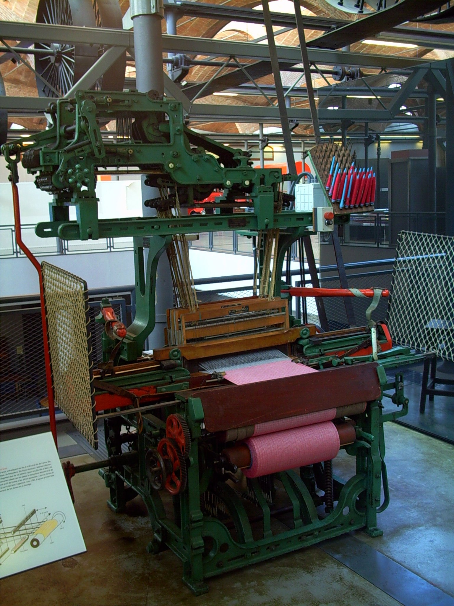 Club loom, at the mNATECT, Terrassa, (Catalunya).